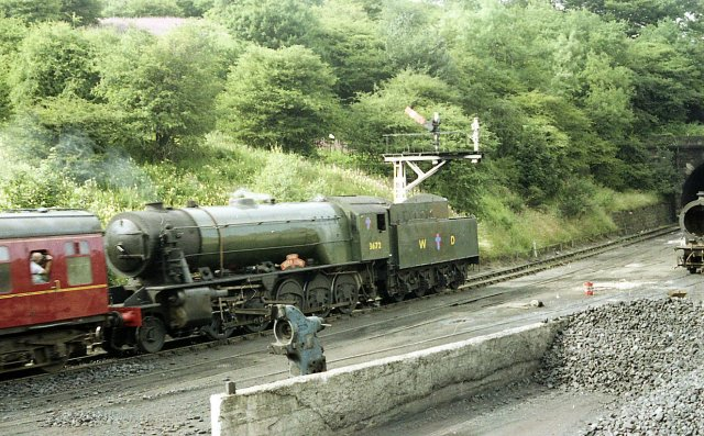 Train heading towards Grosmont tunnel Ex WD 2-10-0 named Dame Vera Lynn heads a train towards Grosmont tunnel.